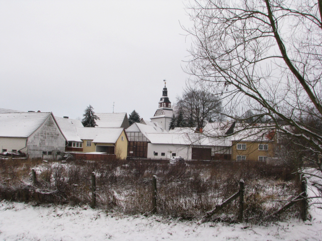 Church in thuringian municipality of Zwinge